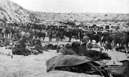 Etmaler, Sinai. c. 1916. The horse lines of A Squadron, 8th Australian Light Horse Regiment, at a site near Romani. (Donor Mrs L.E. McAllister)